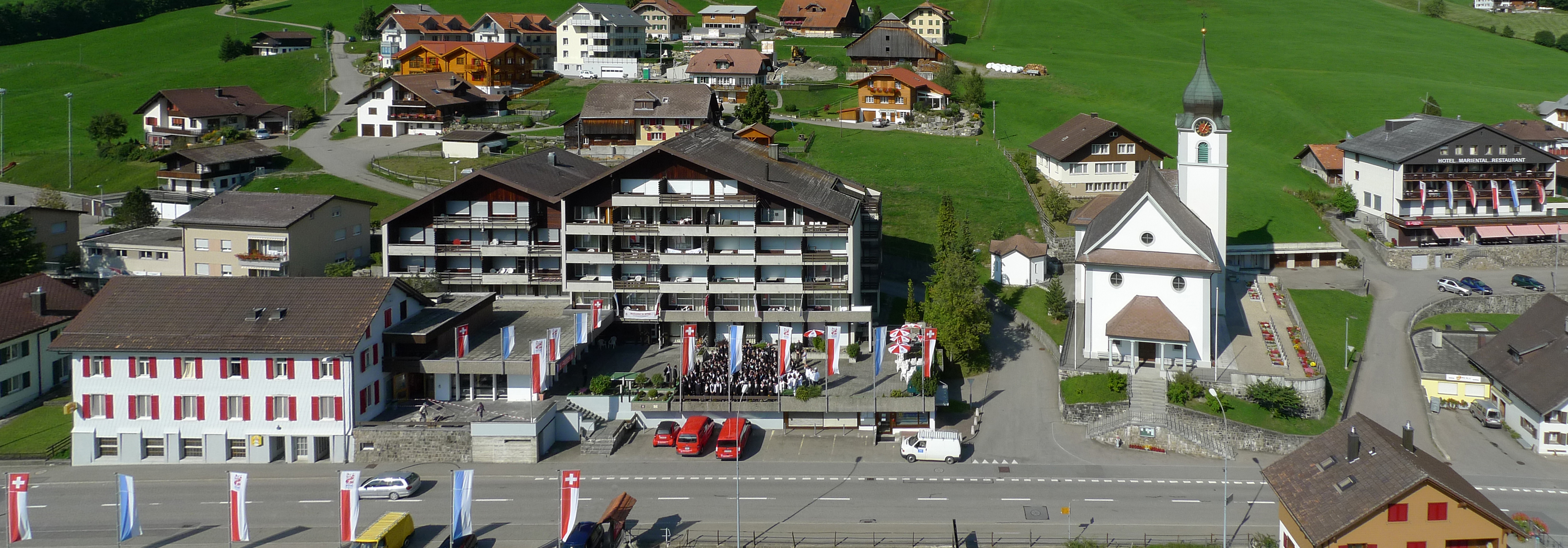 HTMi Hotel School International Campus